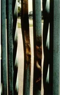 The "burned" section of the gate bars. Resurrection Cemetery, Justice, Cook County, Illinois.